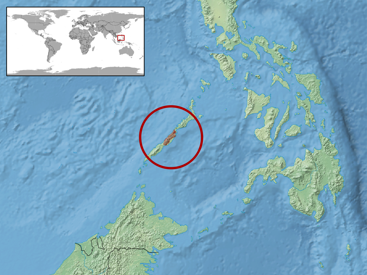 geographic distribution of Parvoscincus palawanensis